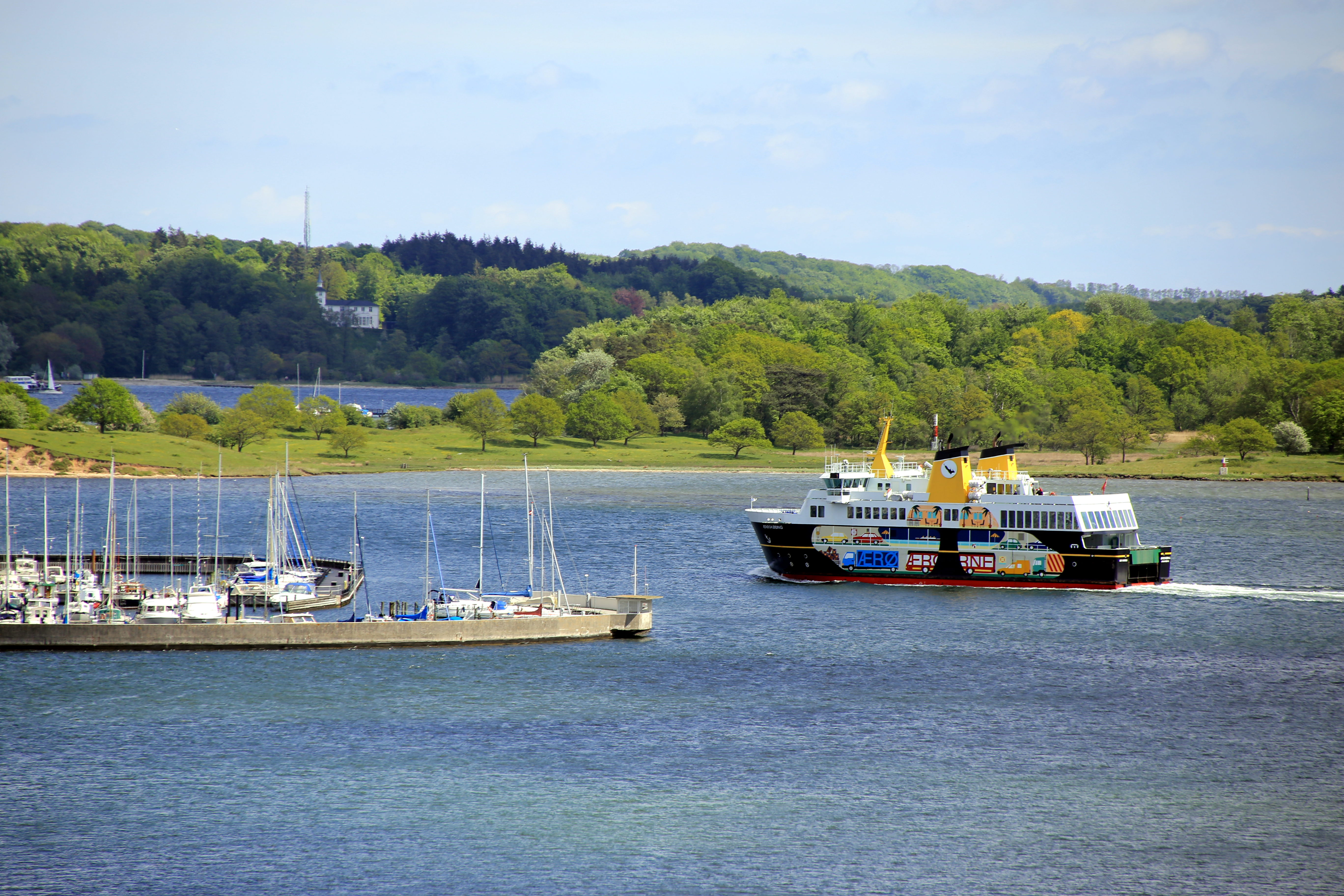 M/F Ærøskøbing near Svendborg harbour, photo shot from the Svendborgsund bridge.